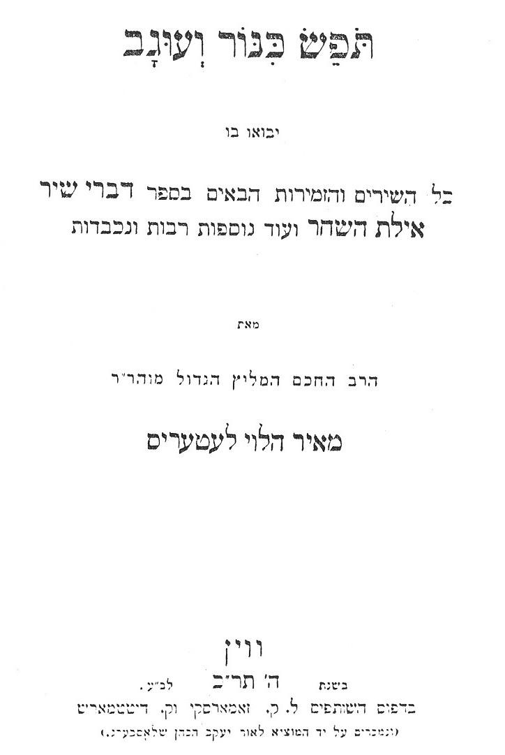 front page of "Tofes Kinor Ve-Ugav", poetry book of Hebrew poet Max Letteris (1800-1871). printed Vienna, 1860